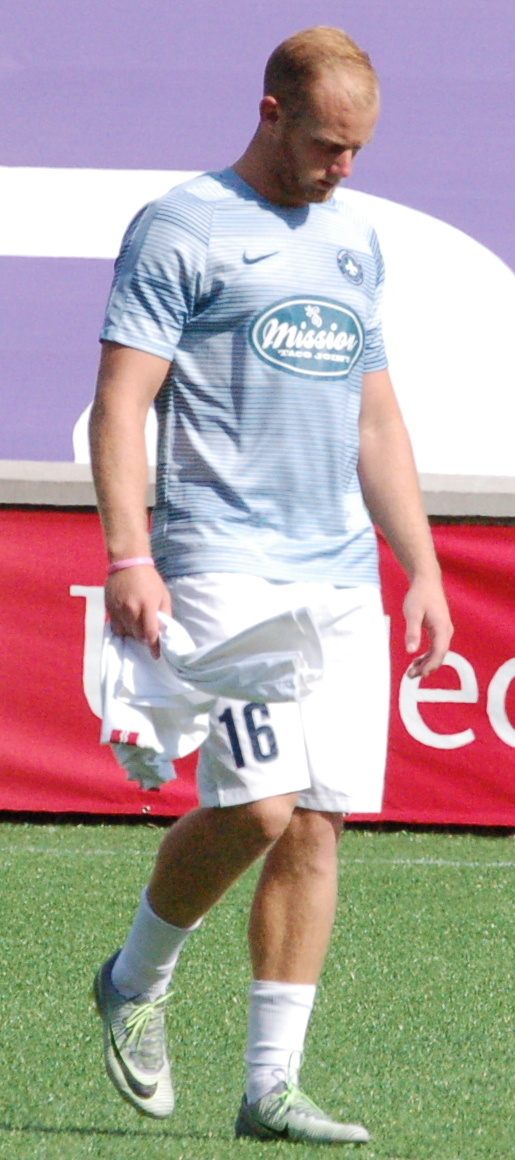 Jake Bond Taken during a USL regular season match between FC Cincinnati and Saint Louis FC at Nippert Stadium in Cincinnati, USA on September 5, 2016.